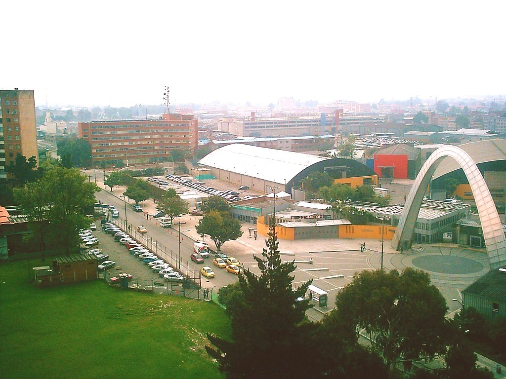 Entry to Corferias in Bogota Colombia with the City n the background